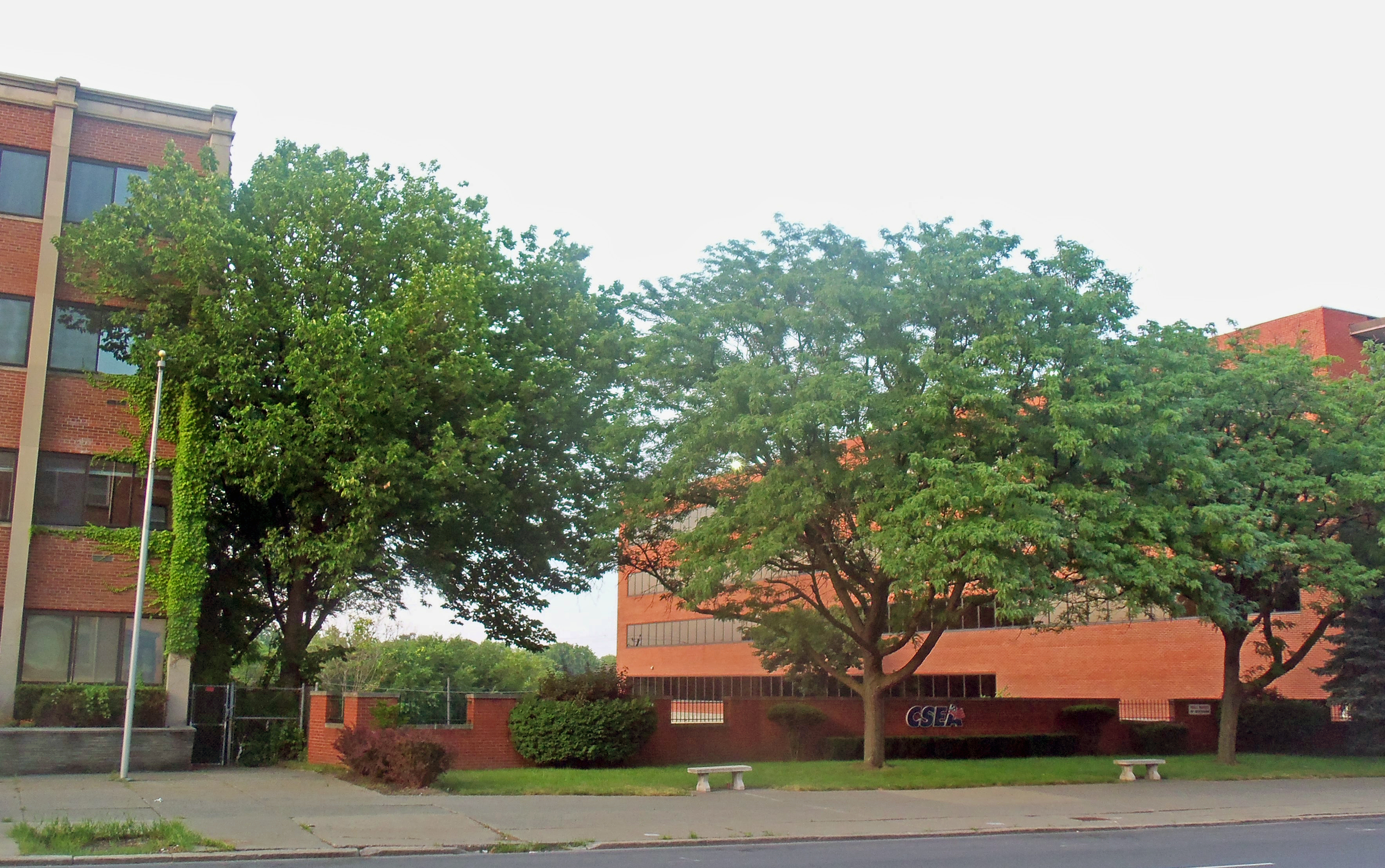 Former site of Dr. Hun Houses, Albany, NY, USA